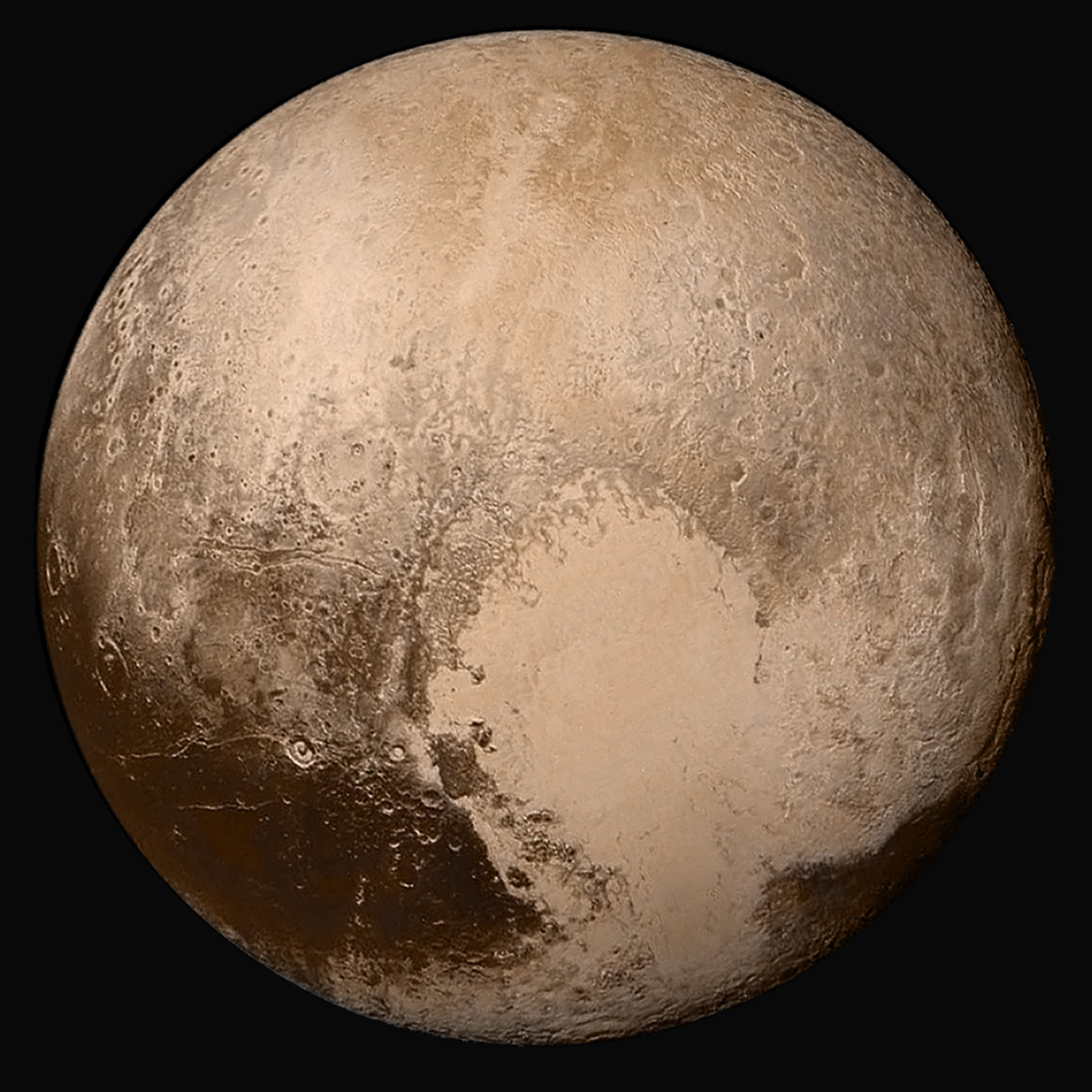 PLUTO - NEW HORIZONS - July 14, 2015 ORIGINAL IMAGE DESCRIPTION: Four images from New Horizons’ Long Range Reconnaissance Imager (LORRI) were combined with color data from the Ralph instrument to create this global view of Pluto. (The lower right edge of Pluto in this view currently lacks high-resolution color coverage.) The images, taken when the spacecraft was 280,000 miles (450,000 kilometers) away, show features as small as 1.4 miles (2.2 kilometers), twice the resolution of the single-image view taken on July 13 [2015]. UPLOADER NOTES: The north polar region is at top, with bright Tombaugh Regio to the lower right of center and part of the dark Cthulhu Regio at lower left. Part of the dark Krun Regio is also visible at extreme lower right. The original NASA image has been modified by doubling the linear pixel density and cropping.